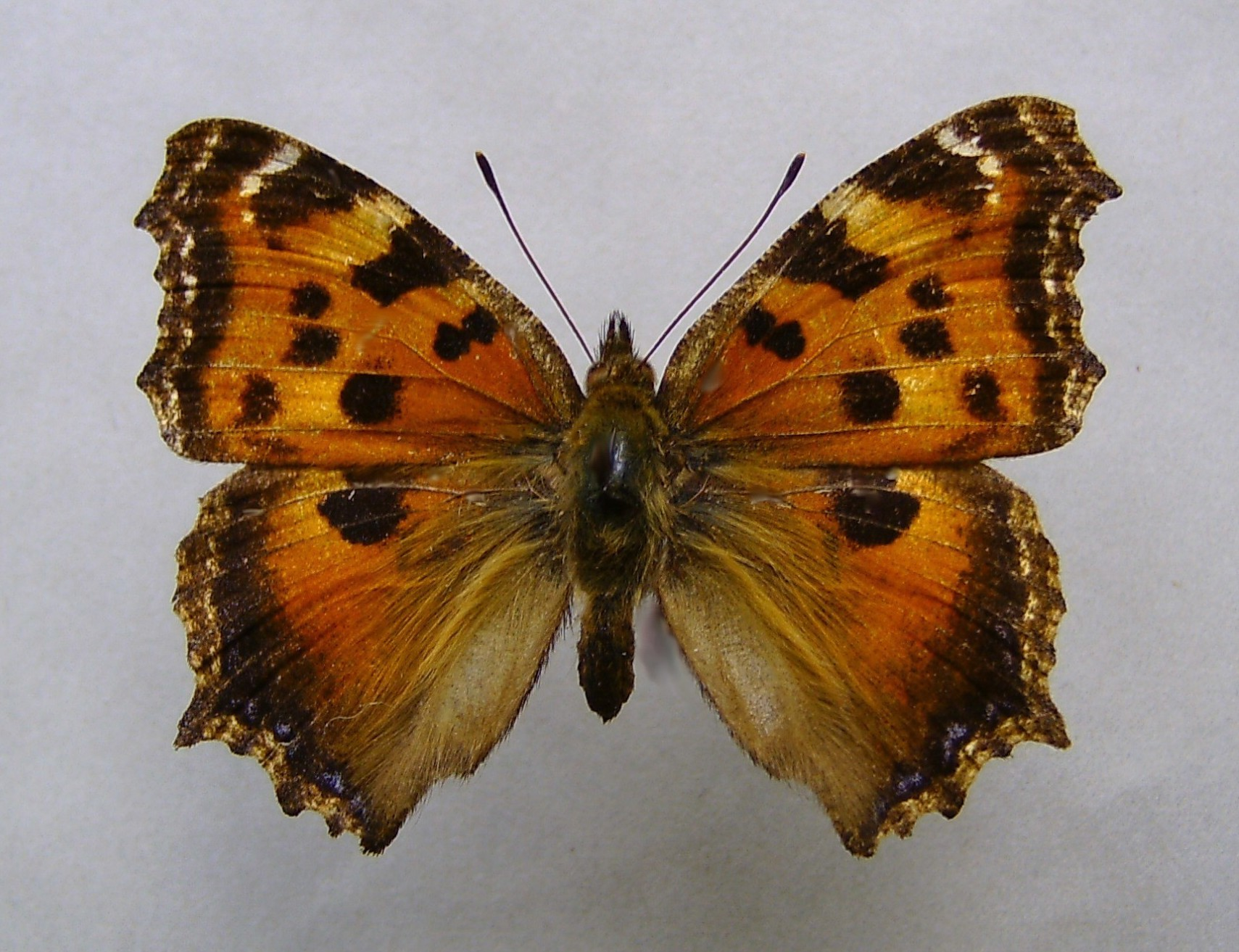 Nymphalis xanthomelas